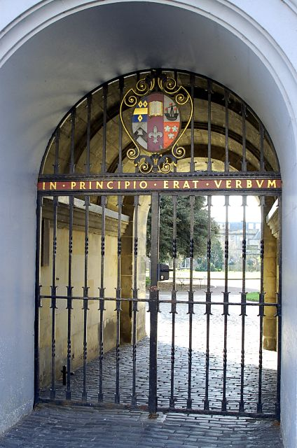 University Gates Very nice gates on the south side of South Street leading into one of the many university buildings.